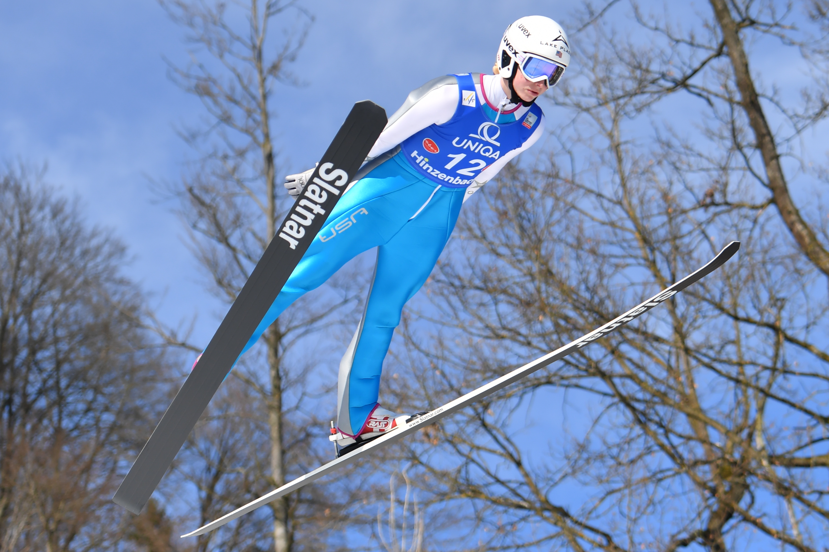 05/02/17, Hinzenbach, Austria, FIS Ski Jumping World Cup Ladies 2017